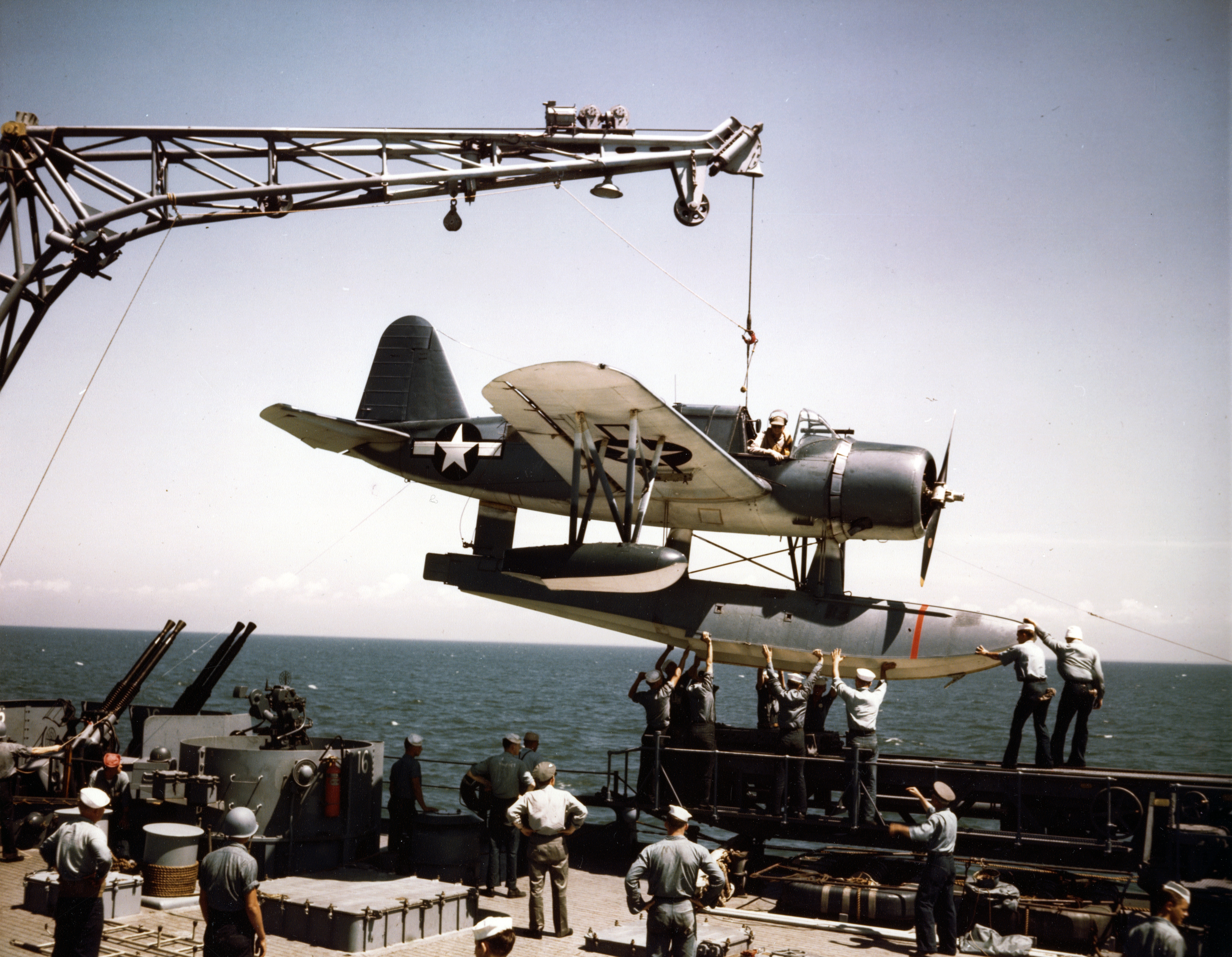 A Naval Aircraft Factory OS2N-1 Kingfisher floatplane (BuNo 01491 or 01401, a licence-built Vought OS2U) is lowered onto its catapult cradle after a flight, aboard the U.S. Navy battleship USS Missouri (BB-63), during her shakedown period in the summer of 1944. Note the Mark 51 director and its associated 40 mm quad gun mount at left.